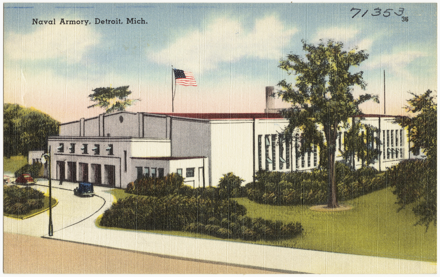 File name: 06_10_014738 Title: Naval Armory, Detroit, Mich. Date issued: 1930 - 1945 (approximate) Physical description: 1 print (postcard) : linen texture, color ; 3 1/2 x 5 1/2 in. Genre: Postcards Subject: Military facilities Notes: Title from item. Collection: The Tichnor Brothers Collection Location: Boston Public Library, Print Department Rights: No known restrictions